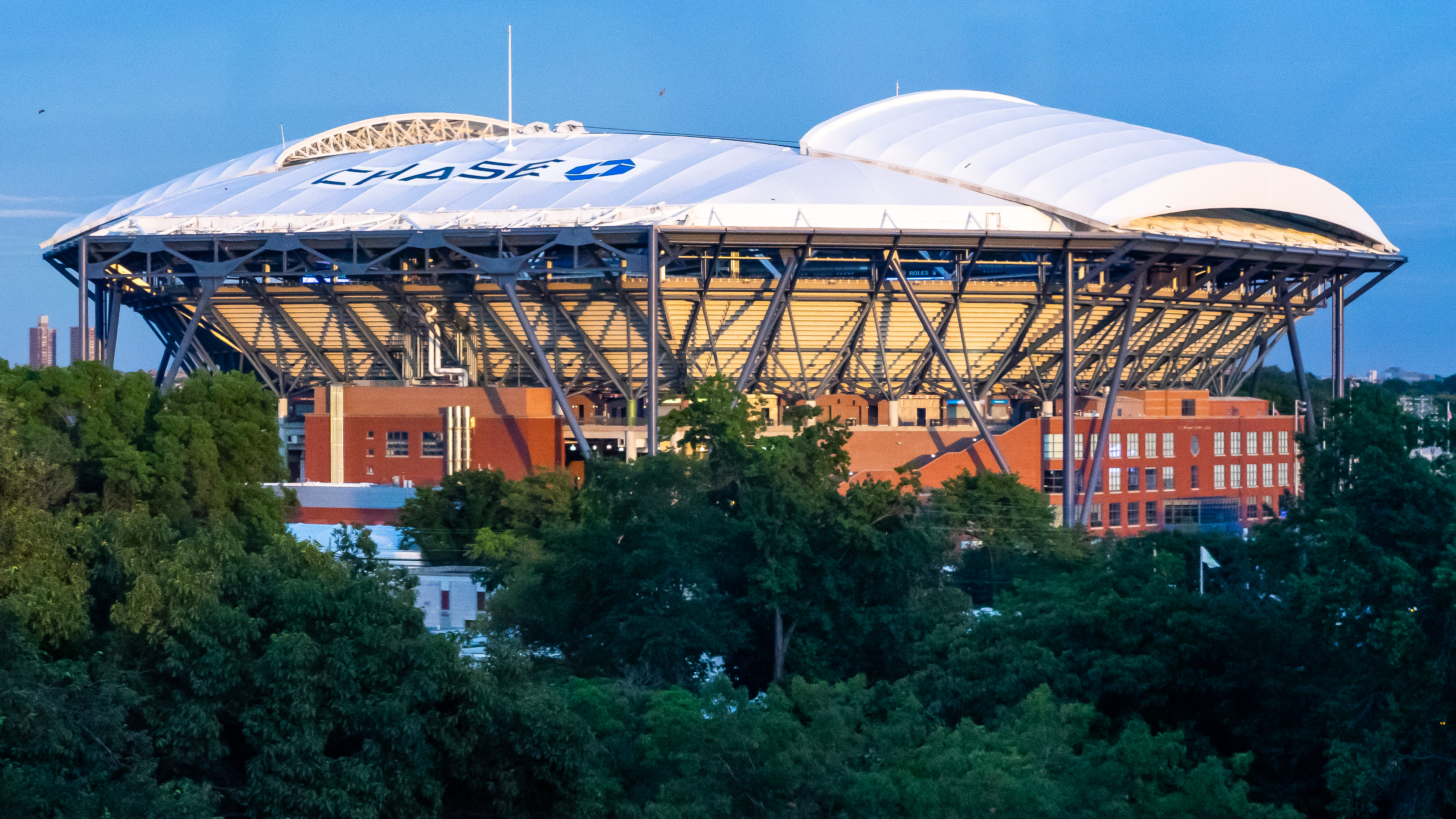 Flushing Meadows–Corona Park, Queens, NYC